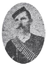 Portrait of Bitola member of IMARO Misel Dupenski